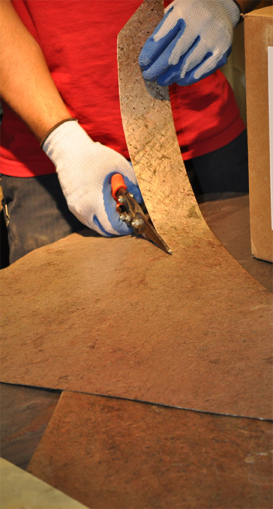 A sheet of flexible stone veneer being cut with shears and bent by hand.